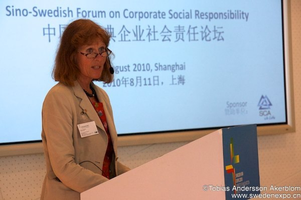 Yvonne Gustafsson, Director General of the Swedish Agency for Public Management.